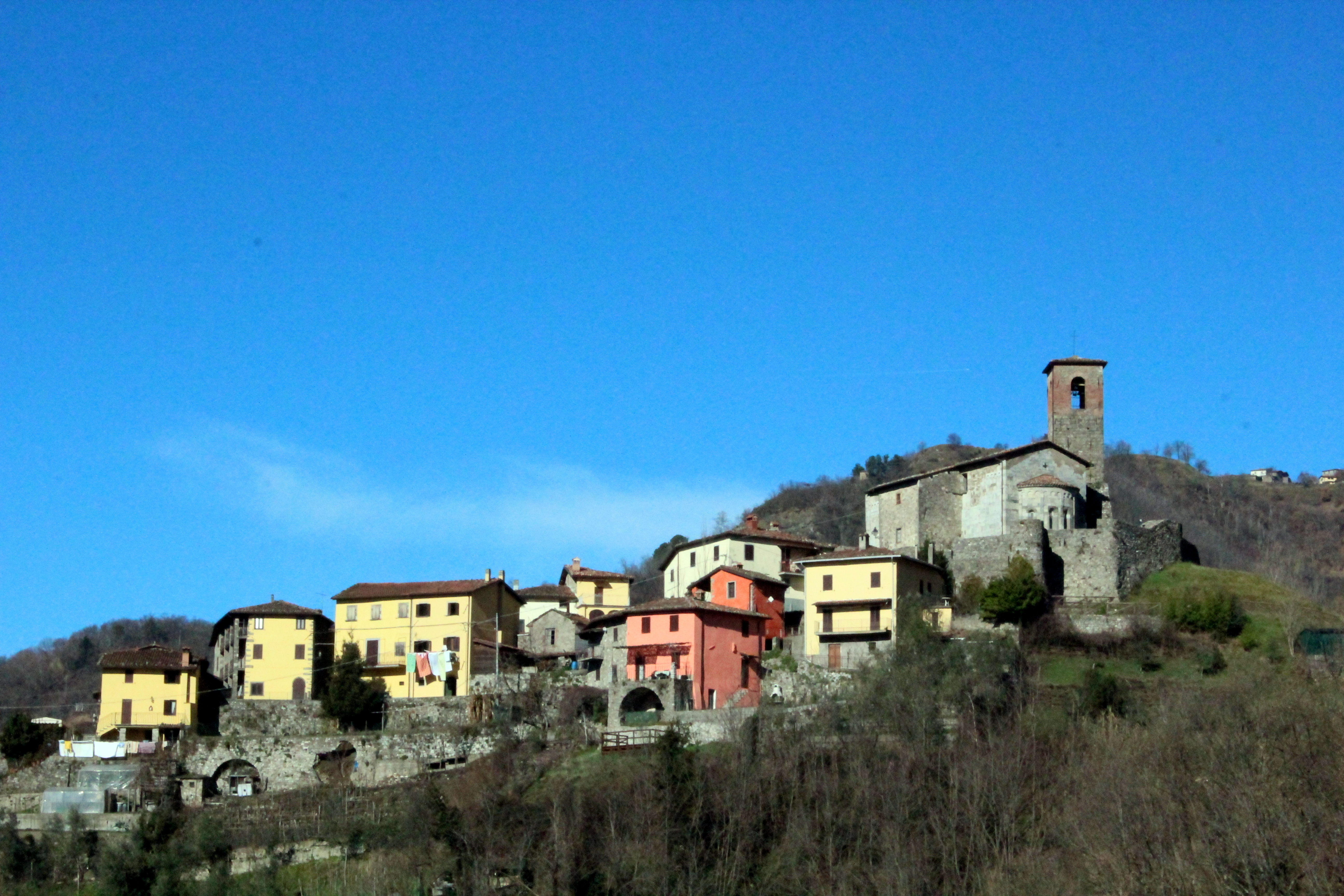 Panorama of Ceserana, hamlet of Fosciandora, Garfagnana, Province of Lucca, Tuscany, Italy